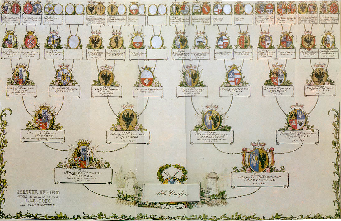 Genesis of L.N.Tolstoy